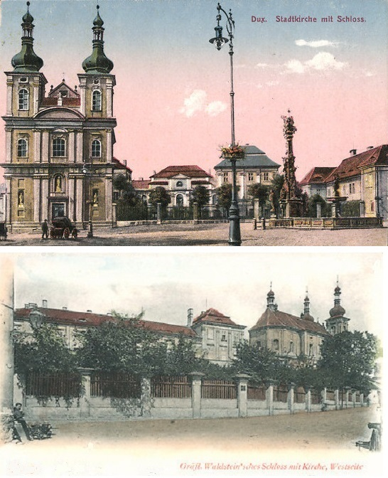 Front and west side views of the castle of the counts of Waldstein at Duchcov (German: Dux). As librarian to Count Joseph Karl von Waldstein, Giacomo Casanova spent the last twelve years of his life at Dux Castle, where his wrote Histoire de ma vie. Two postcards from the turn of the century, the bottom one posted in 1898.